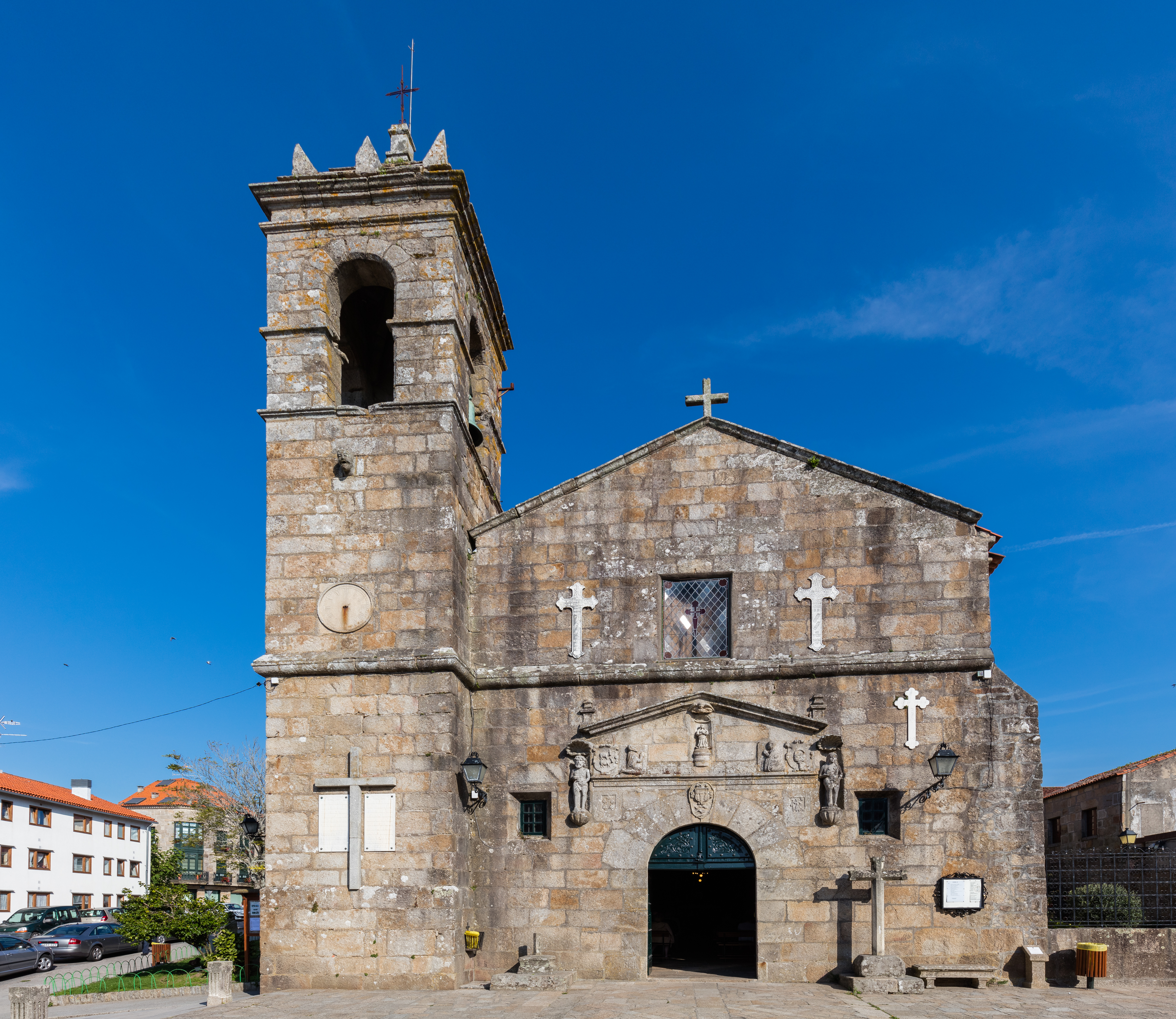 St Franciscus convent, Cambados, Pontevedra, Galicia (Spain)